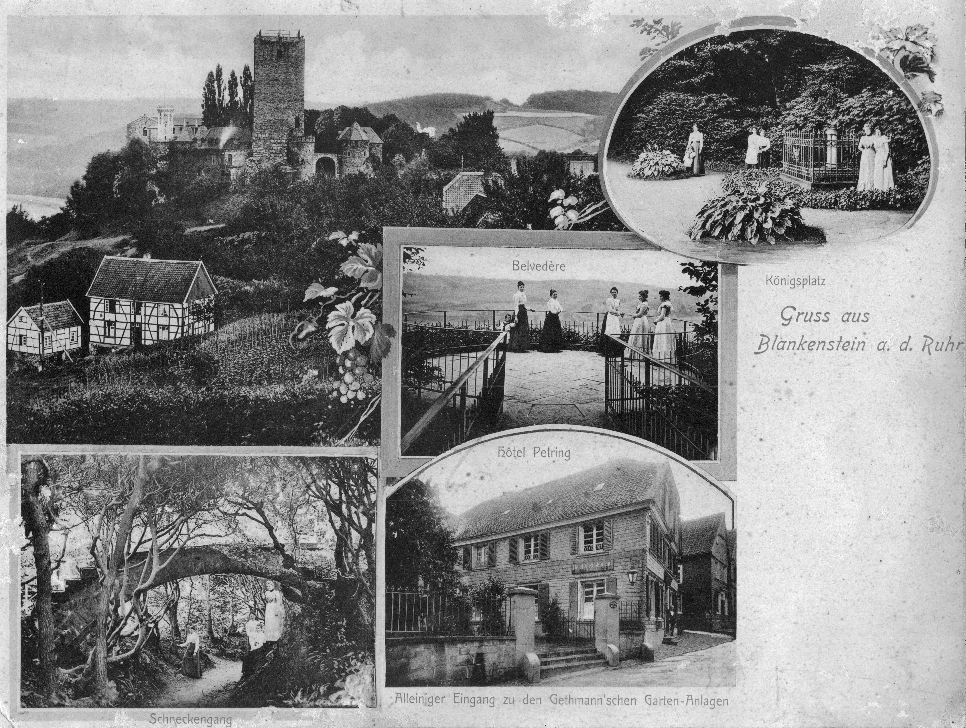 Blankenstein an der Ruhr and Burg Blankenstein in Hattingen, Germany